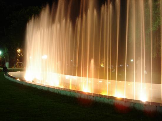 A view of fountain in Cantt Garden Multan Pakistan at night